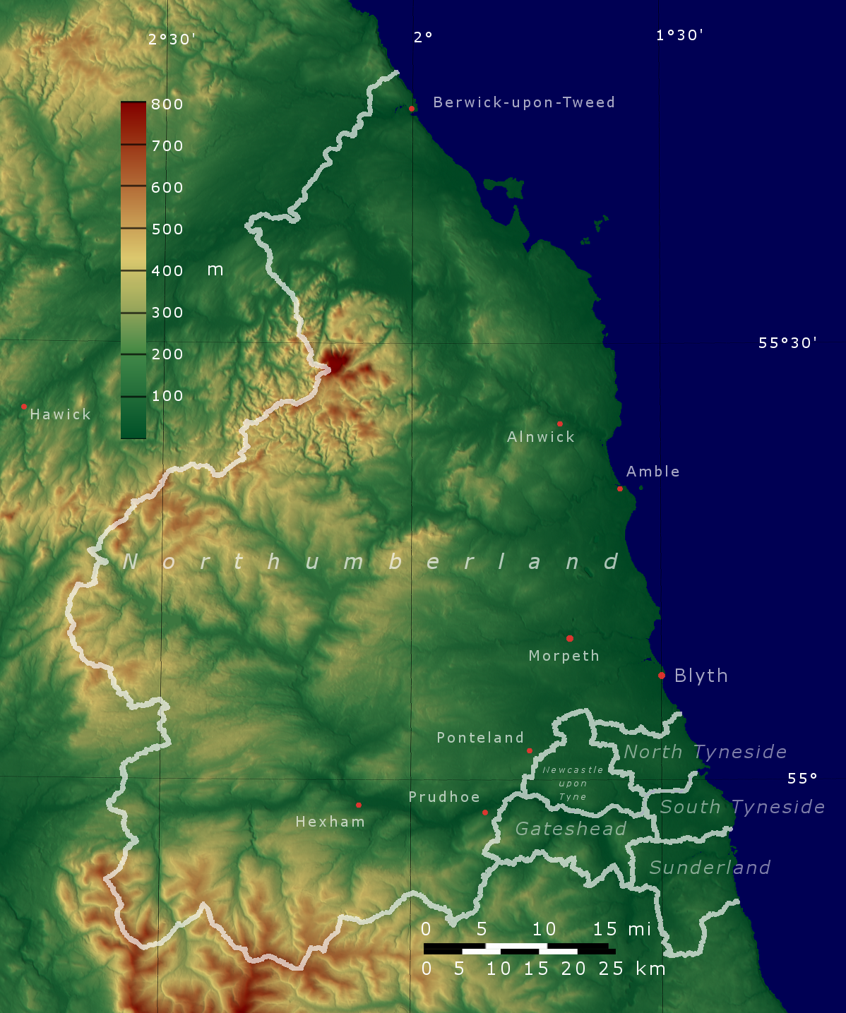 Map created with 3DEM from SRTM ( Administrative boundaries from OpenStreetMap.